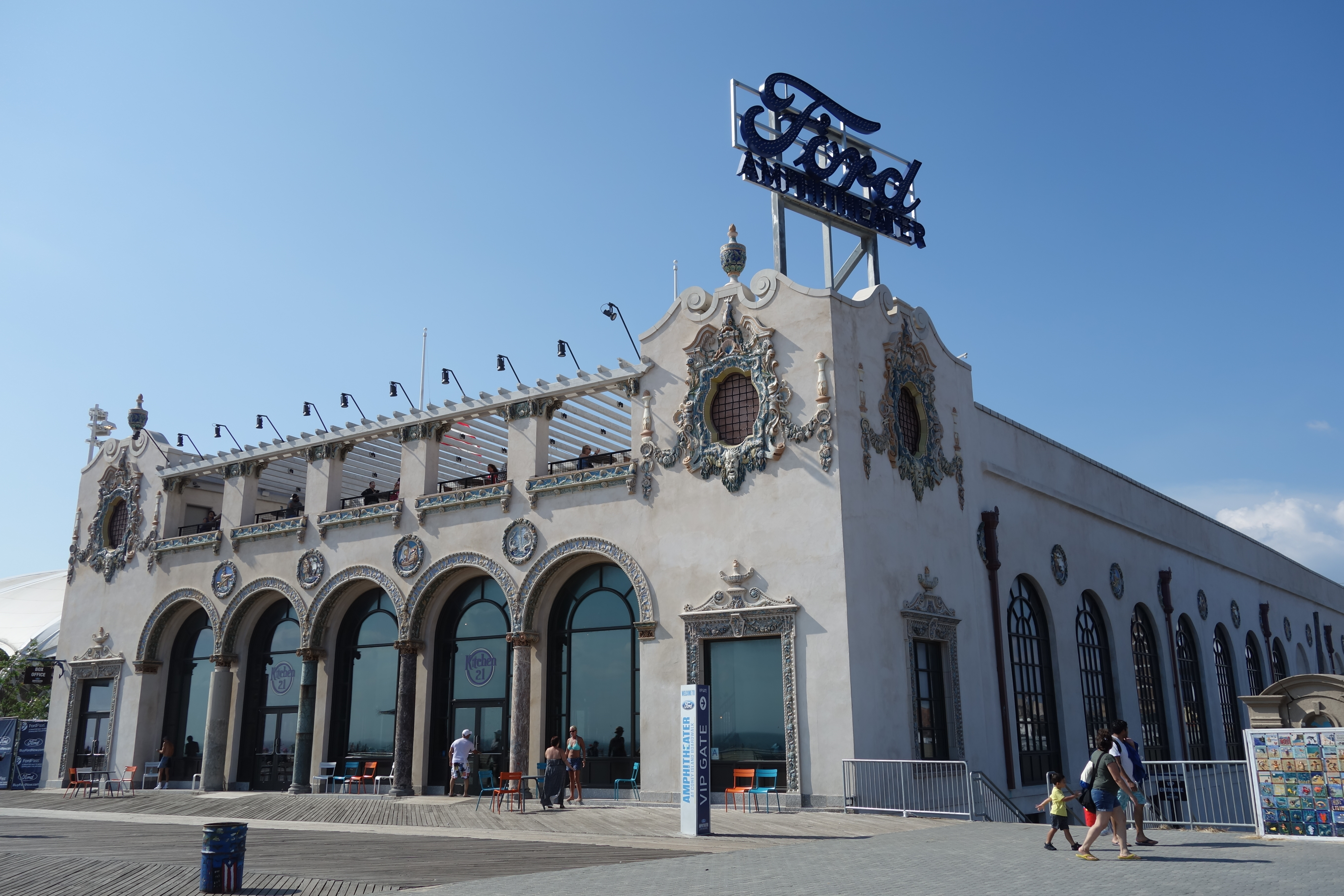 The former Childs Restaurant (now part of the Ford Amphitheater), on the Riegelmann Boardwalk at West 21st Street in Coney Island, Brooklyn. The restaurant was renovated when the amphitheater constructed, and now hosts the Kitchen 21 restaurant.